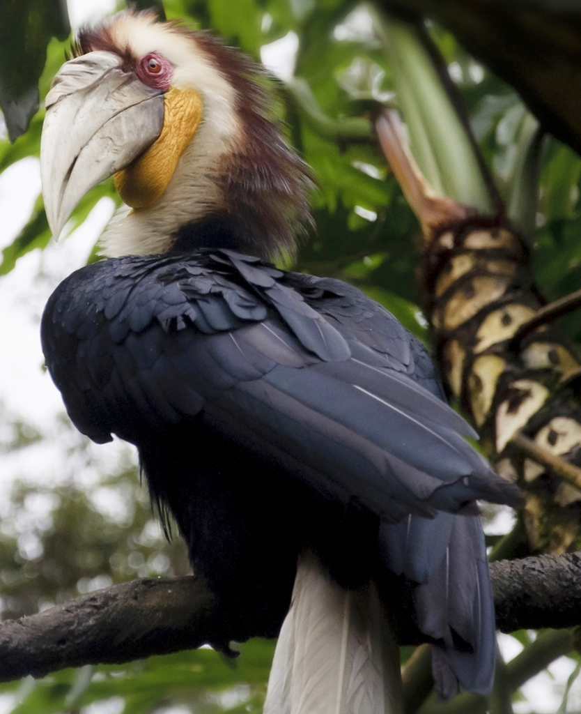 A male Wreathed Hornbill (also known as the Bar-pouched Wreathed Hornbill) in Taman Safari, West Java, Indonesia.